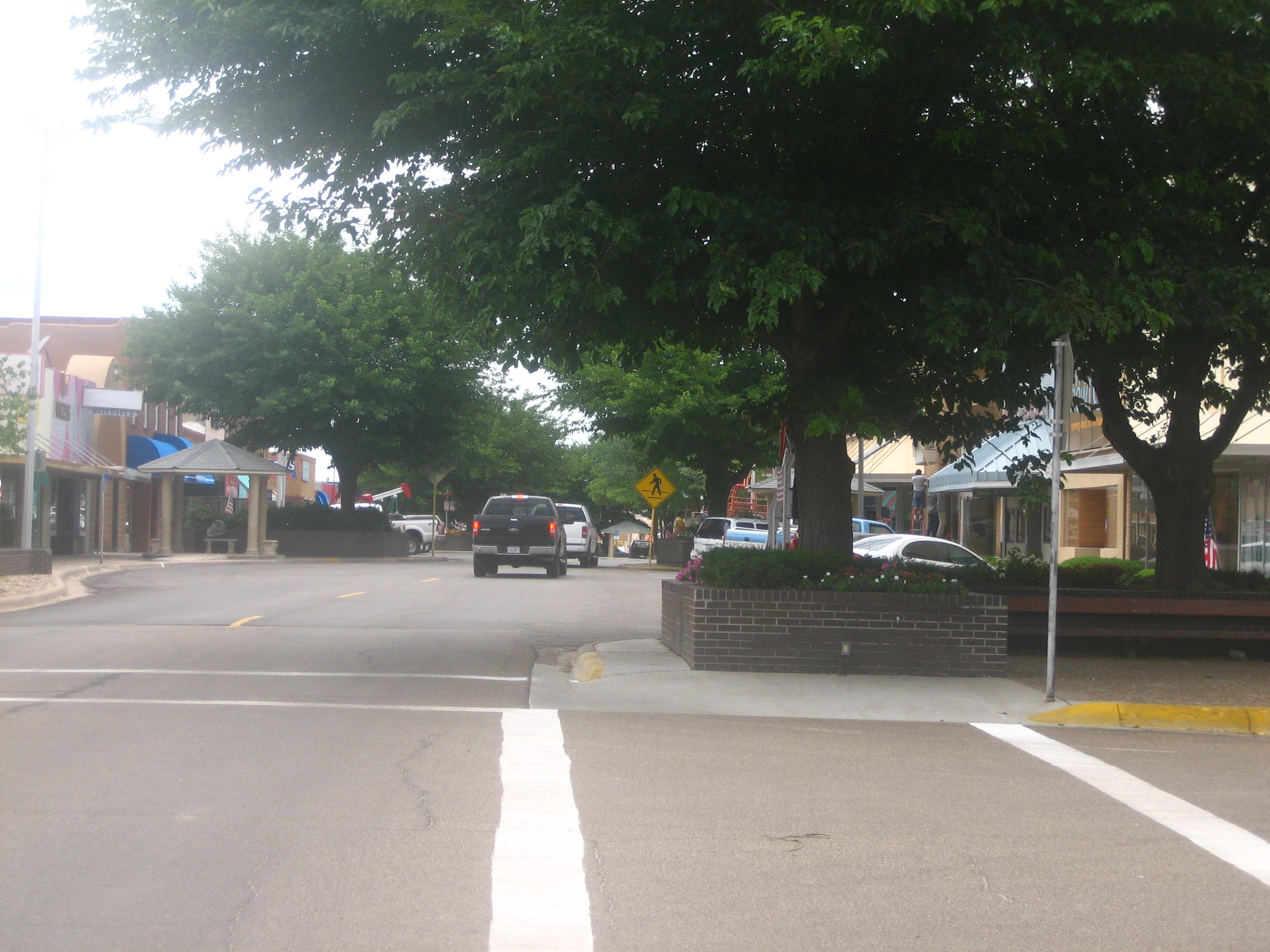 I took photo on July 15, 2008.Billy Hathorn (talk) 04:23, 18 October 2008 (UTC)